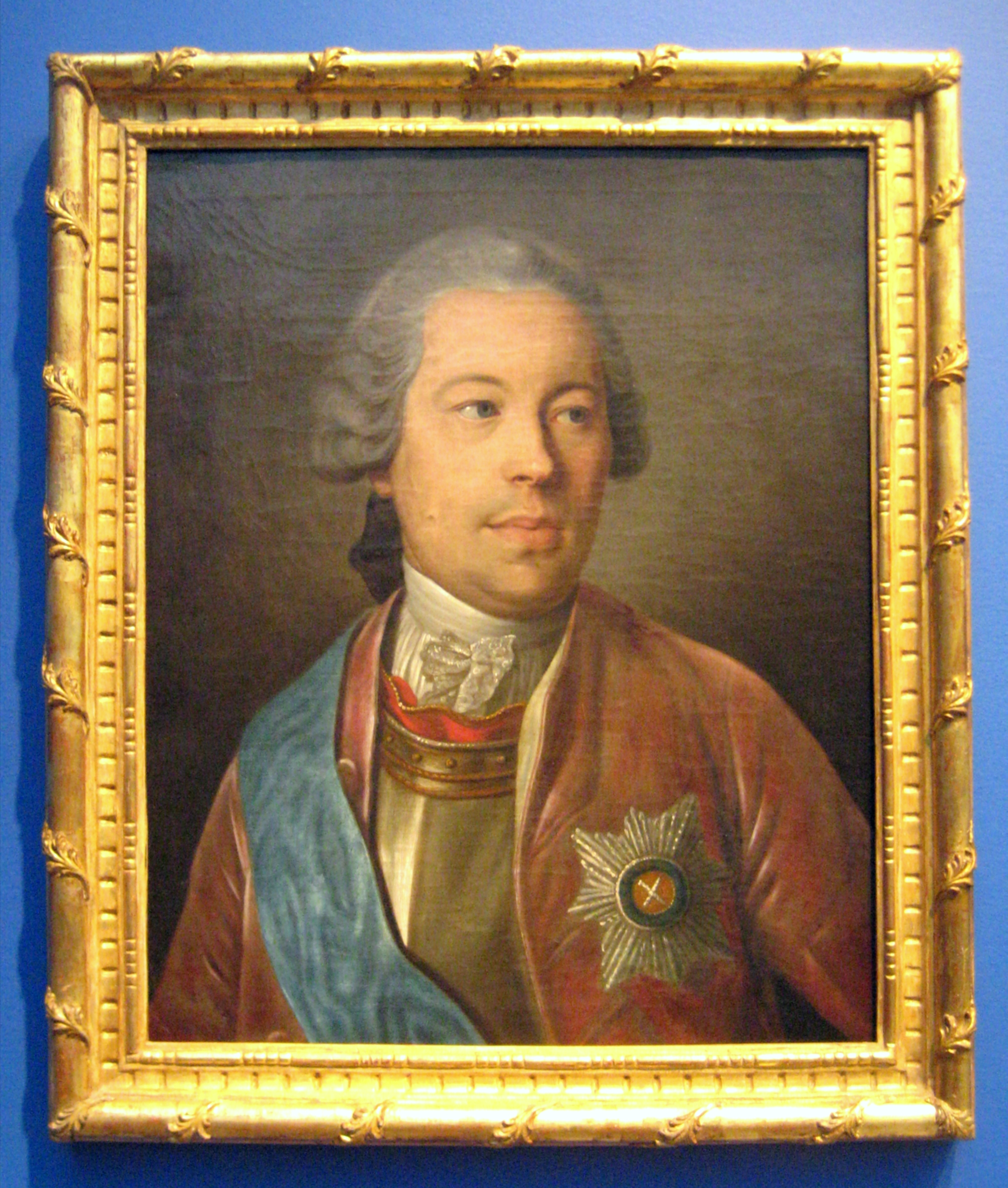 Portrait of Mikhail Illarionovich Vorontsov (1714-1767)